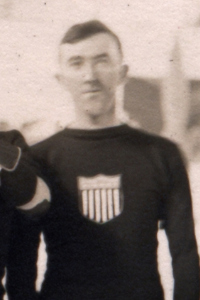 American ice hockey player Frank Synott representing the US national ice hockey team at the 1920 Summer Olympics in Antwerp, Belgium. The picture is a crop out of a larger team photo taken inside the ice rink Palais de Glace d'Anvers. The ice hockey tournament at the 1920 Summer Olympics took place between April 23 and April 29. The american team won silver medals at the games.